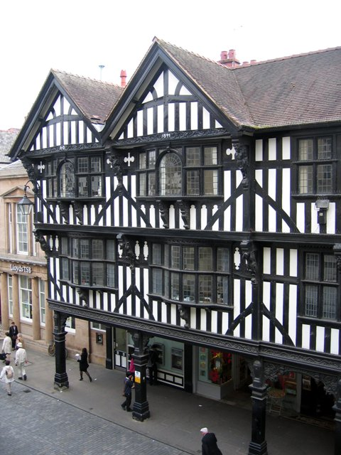 Old Bank Buildings from the Eastgate. Old Bank Buildings were built in 1895 in the popular Victorian black and white style. See also 786298